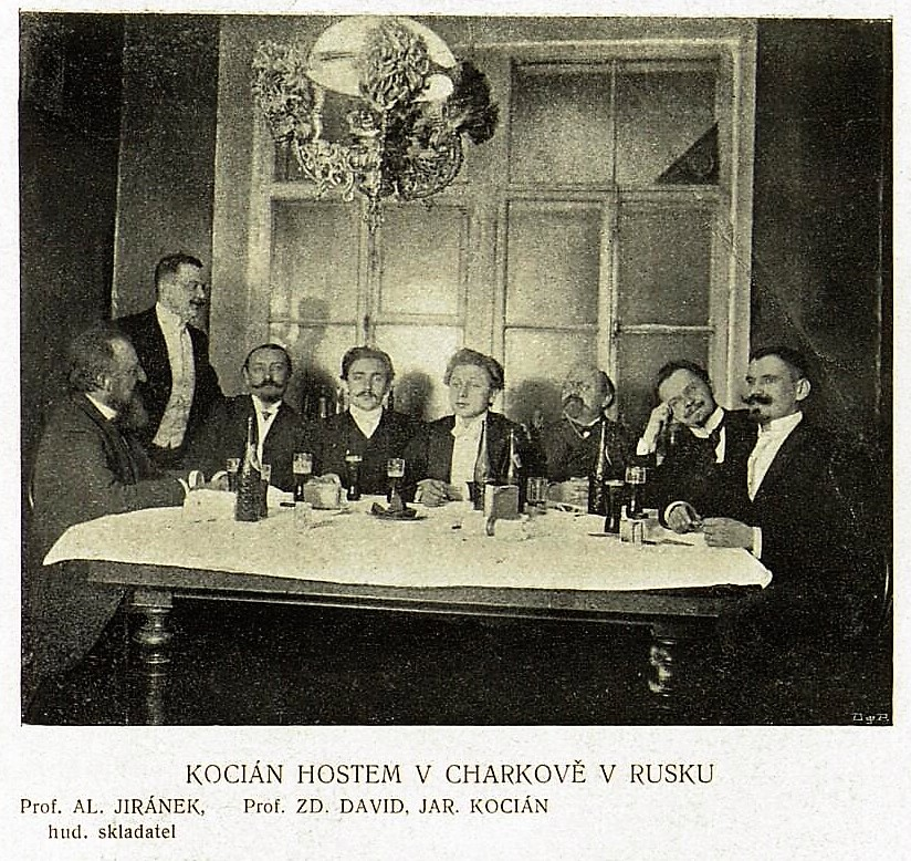 Jaroslav Kocian, Czech violonist, in Kharkov, 1905